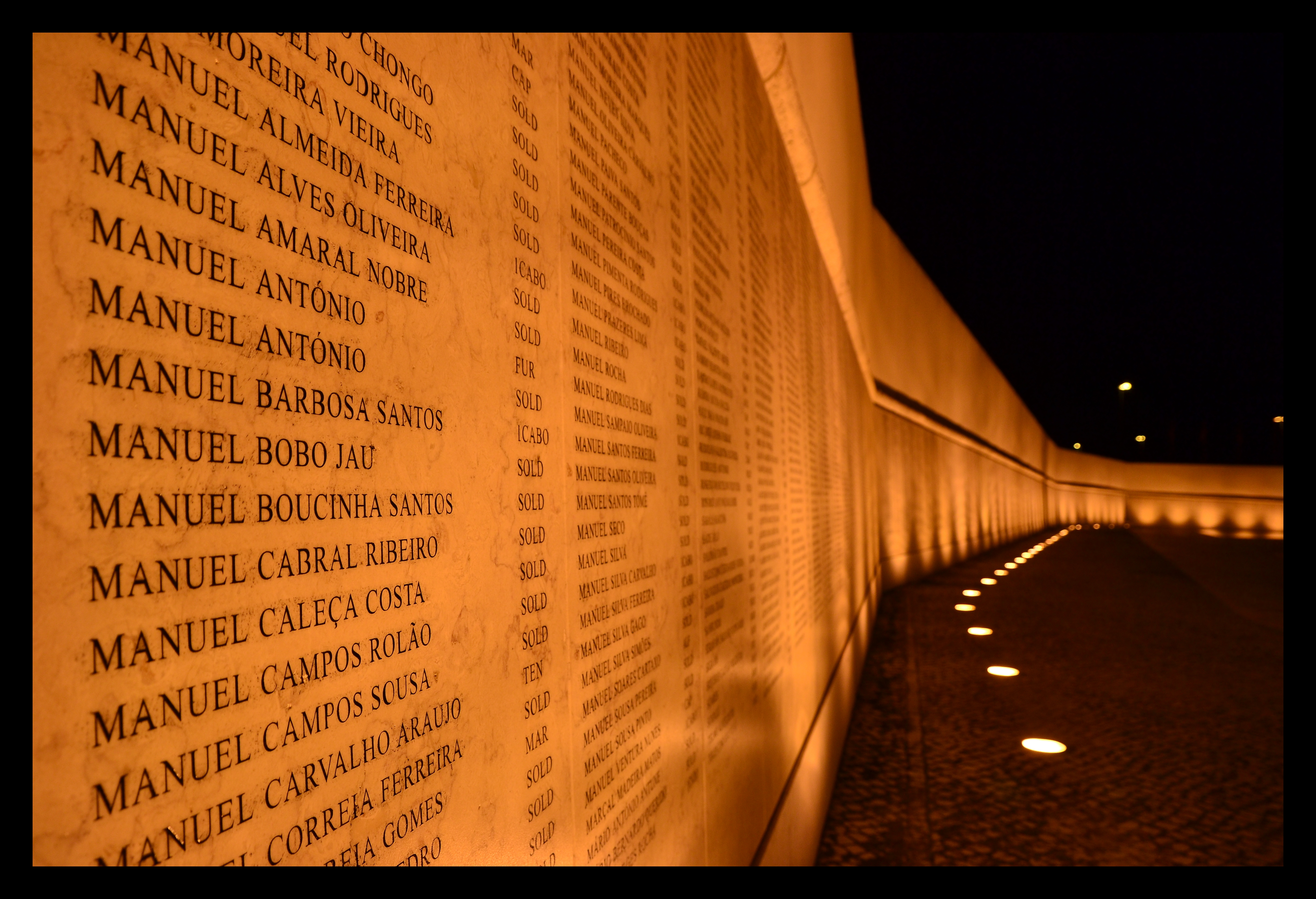 Memorial Monument of the overseas fallen soldiers; Lisbon, Portugal